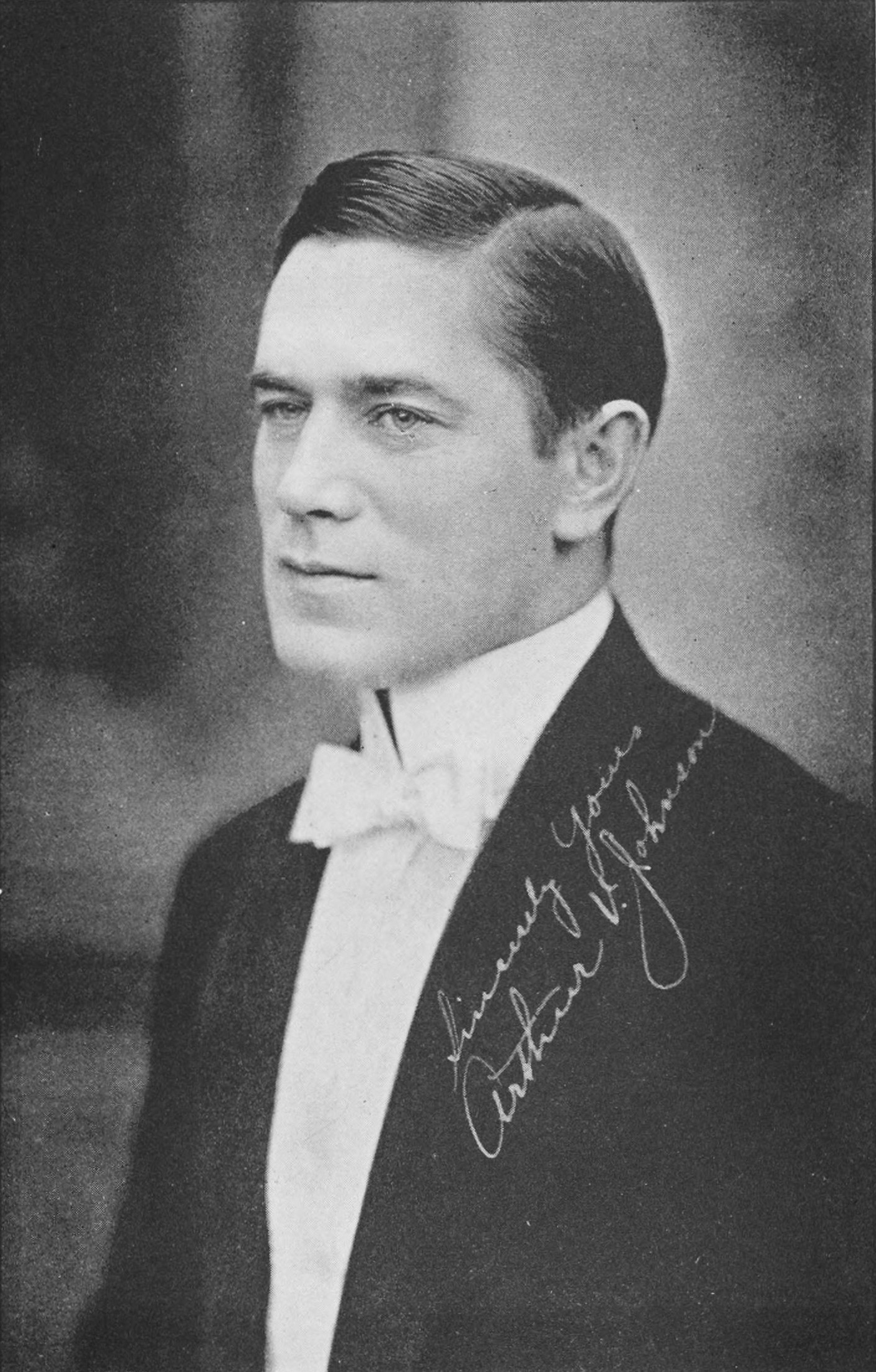 Autographed photo of silent film actor and director Arthur V. Johnson